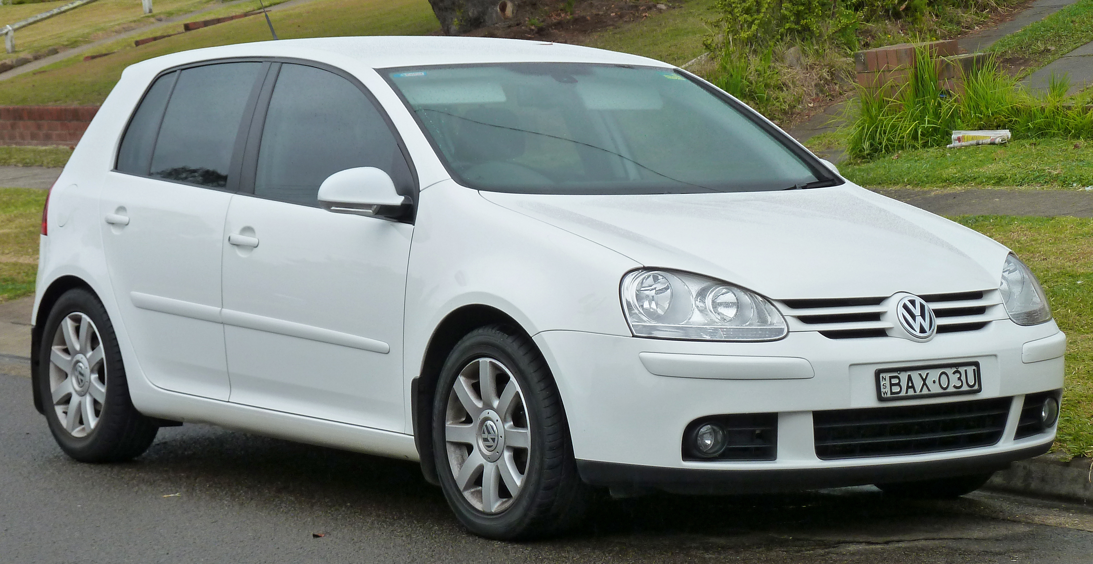 2007 Volkswagen Golf (1K MY07) Sportline 2.0 TDI 5-door hatchback. Photographed in Miranda, New South Wales, Australia.